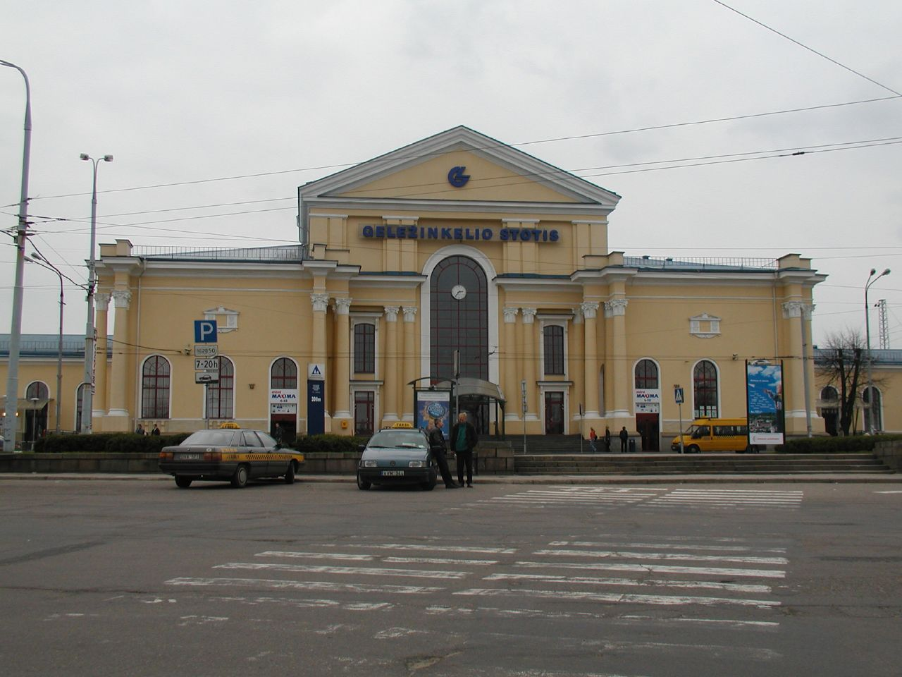 Vilnius main station (Geležinkelio stotis)